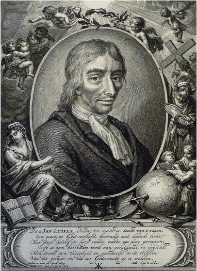 Portrait of Jan Luyken from the Bowyer Bible in Bolton Museum, England. Volume 1 print 7. One of 6,330 prints in 45 volumes. The six volumes of the Macklin Bible have been expanded by careful grangerisation. Photo by Harry Kossuth; file created by Phillip Medhurst.